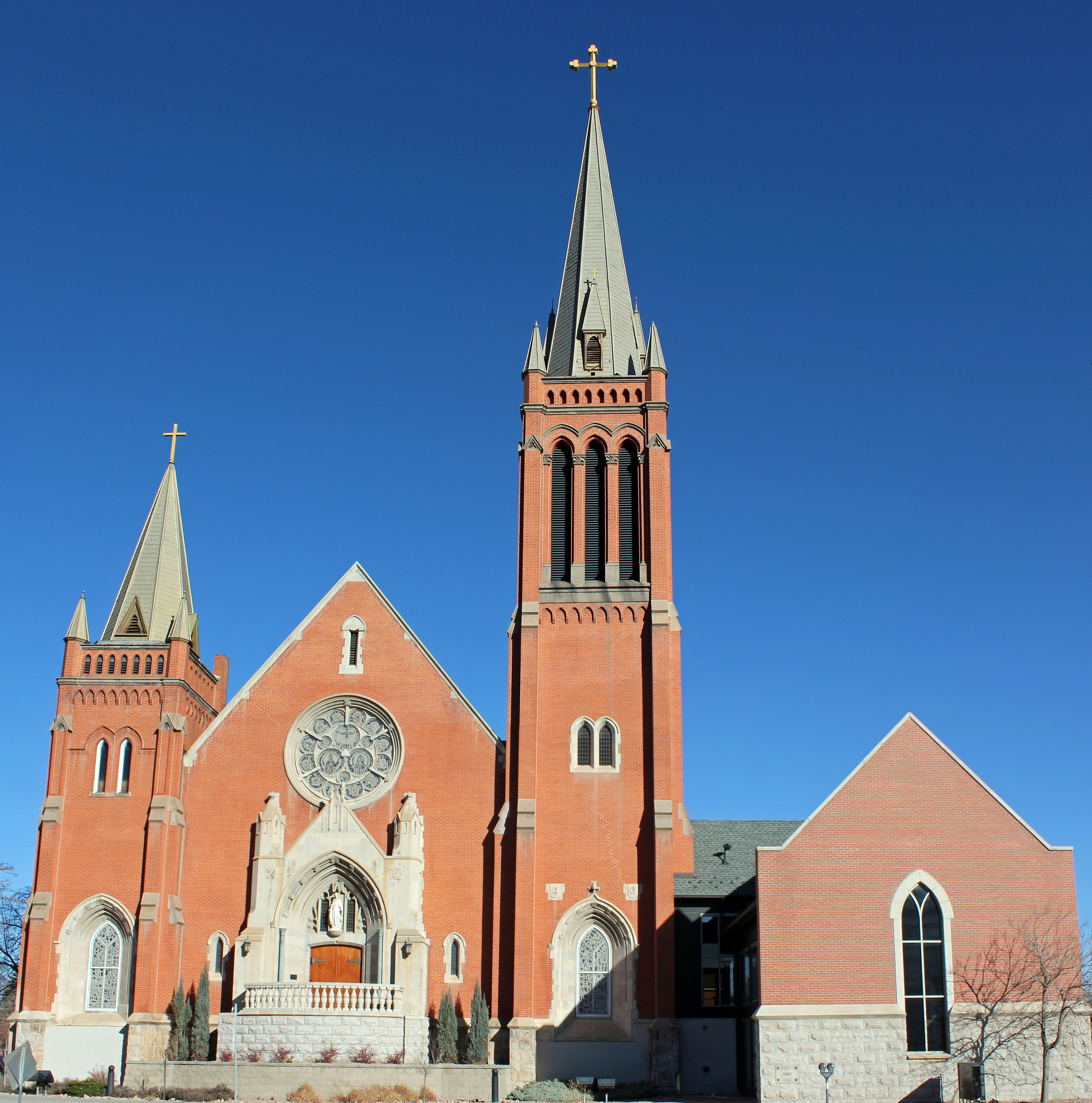 St. Mary's Catholic Church, located at 26 West Kiowa Street in Colorado Springs, Colorado. The Church is listed on the National Register of Historic Places.